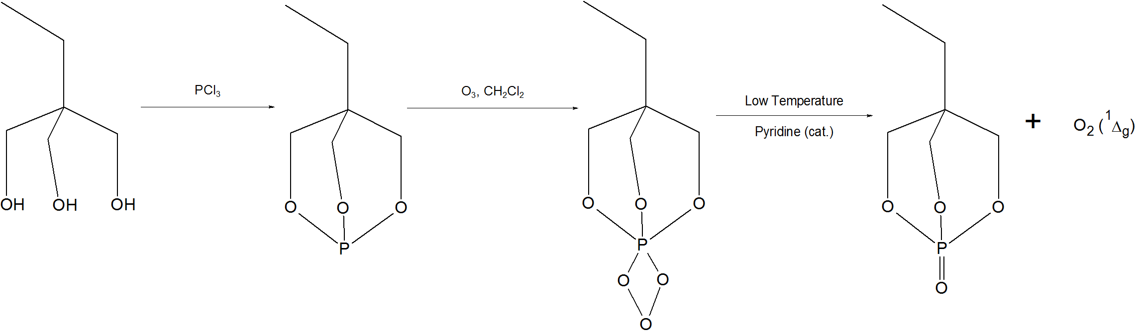 Scheme for preparing singlet oxygen via phosphite ozonides